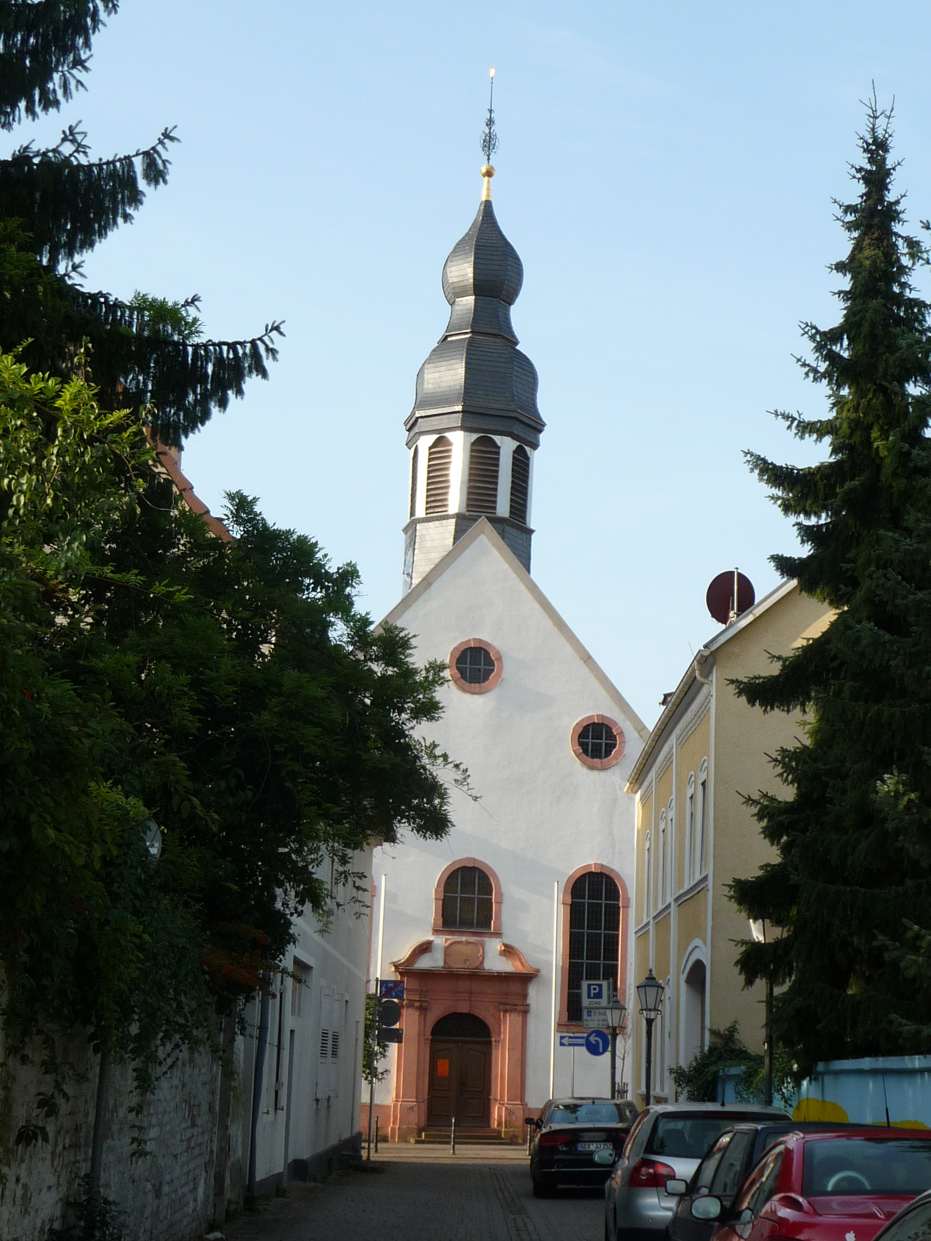 Church in Germersheim